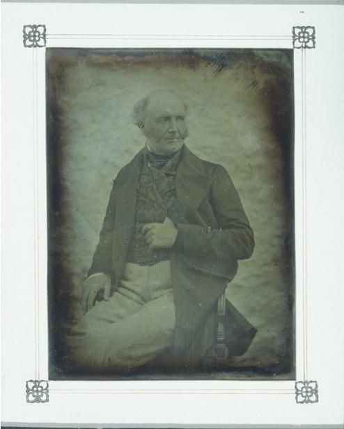 Self-portrait of Horatio Ross, about 1850 V&A Museum no. 242-1946 Techniques - Daguerreotype Place - Scotland Dimensions - Height 13.1 cm (with frame), Width 10.8 cm, Depth 0.7 cm Object Type - Daguerreotypes (an early type of photograph on a silvered copper plate) were usually protected by glass and sometimes kept in leather or thick plastic cases because the highly polished surface is easily scratched. The image is a unique positive made directly onto the plate without a negative, as in other forms of photography. Many daguerreotype photographers replaced miniature painters as makers of portraits as the process was quicker and less expensive. Ownership & Use - Daguerreotypes were not made primarily for public display in exhibitions. Such small and intimate photographs were generally produced as private keepsakes and often remained within the family. People - Horatio Ross (1801-1886) took up photography in 1845, although he is also remembered as one of the 19th century's finest sportsmen. He was best known for steeplechasing (a form of horse racing) and as a marksman. Ross and his sons represented Scotland in the National Rifle Association championships in 1863